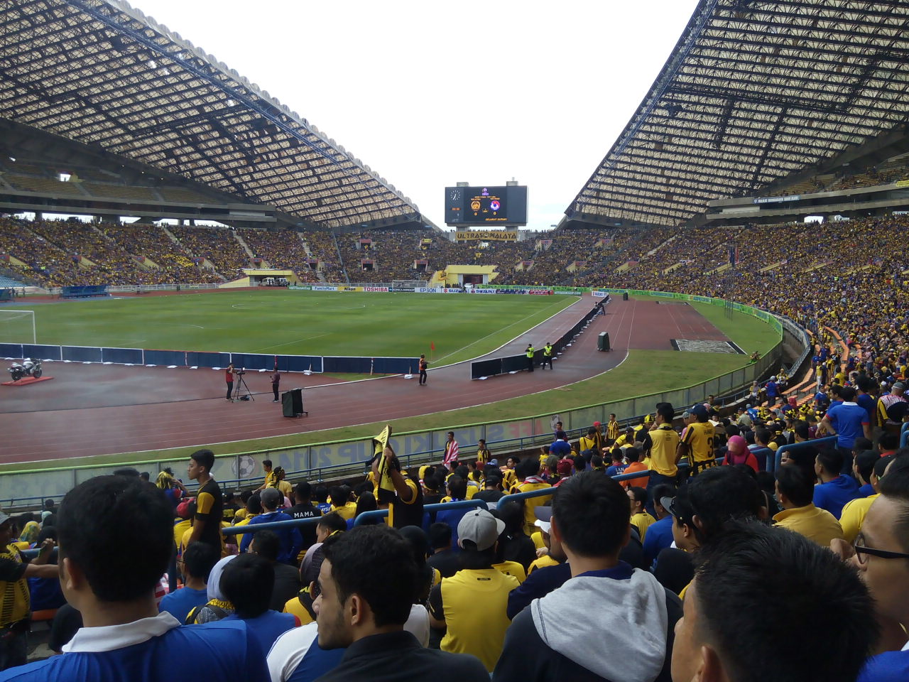 This photo was taken by me during the match between Malaysia national football team against Vietnam during 2014 AFF Suzuki Cup.